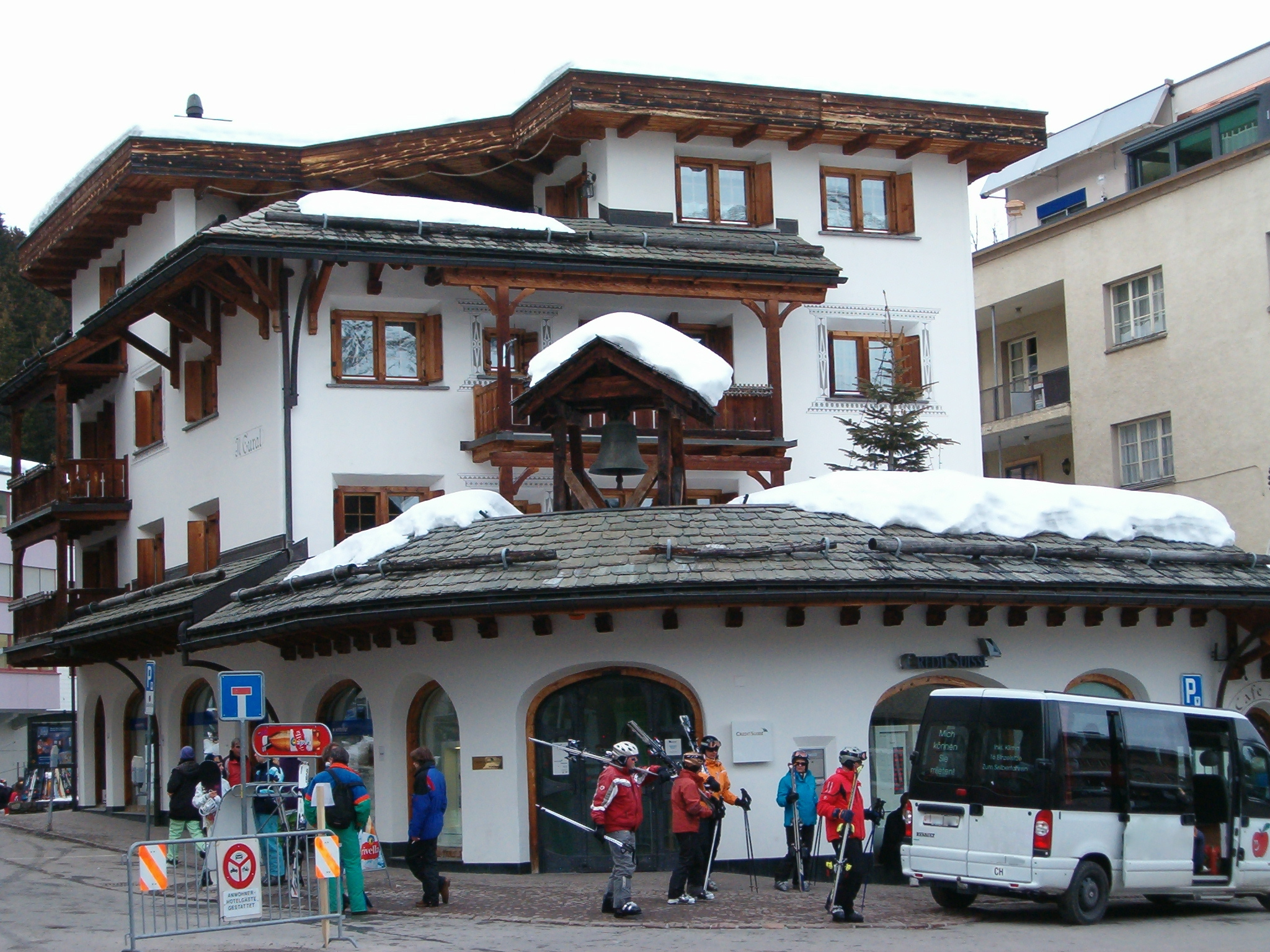 House at place of ancient English Church, Arosa/Switzerland